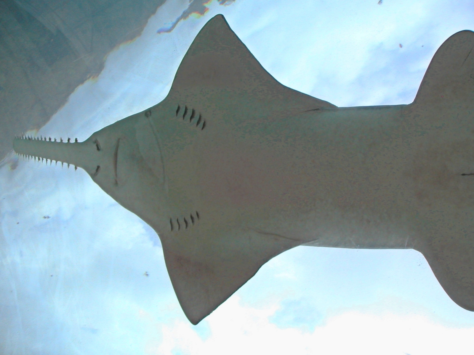 Tunnels under the Predator pool with sharks, barracuda, sawfish (Pristidae), etc. at Atlantis, Paradise Island, Nassau, Bahamas. The name of this file is incorrect. This image shows a sawfish, not a shawshark.